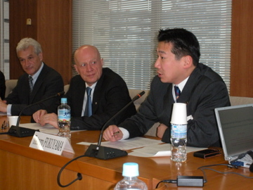 From left to right: Volker Stanzel (de), Ralf Fücks, Tetsuro Fukuyama, at the joint conference and panel discussion of the Heinrich Böll Foundation, the Japanese-German Center Berlin and the Japan Institute of International Affairs on March 8 and 9, 2010 in Tokyo, Japan.